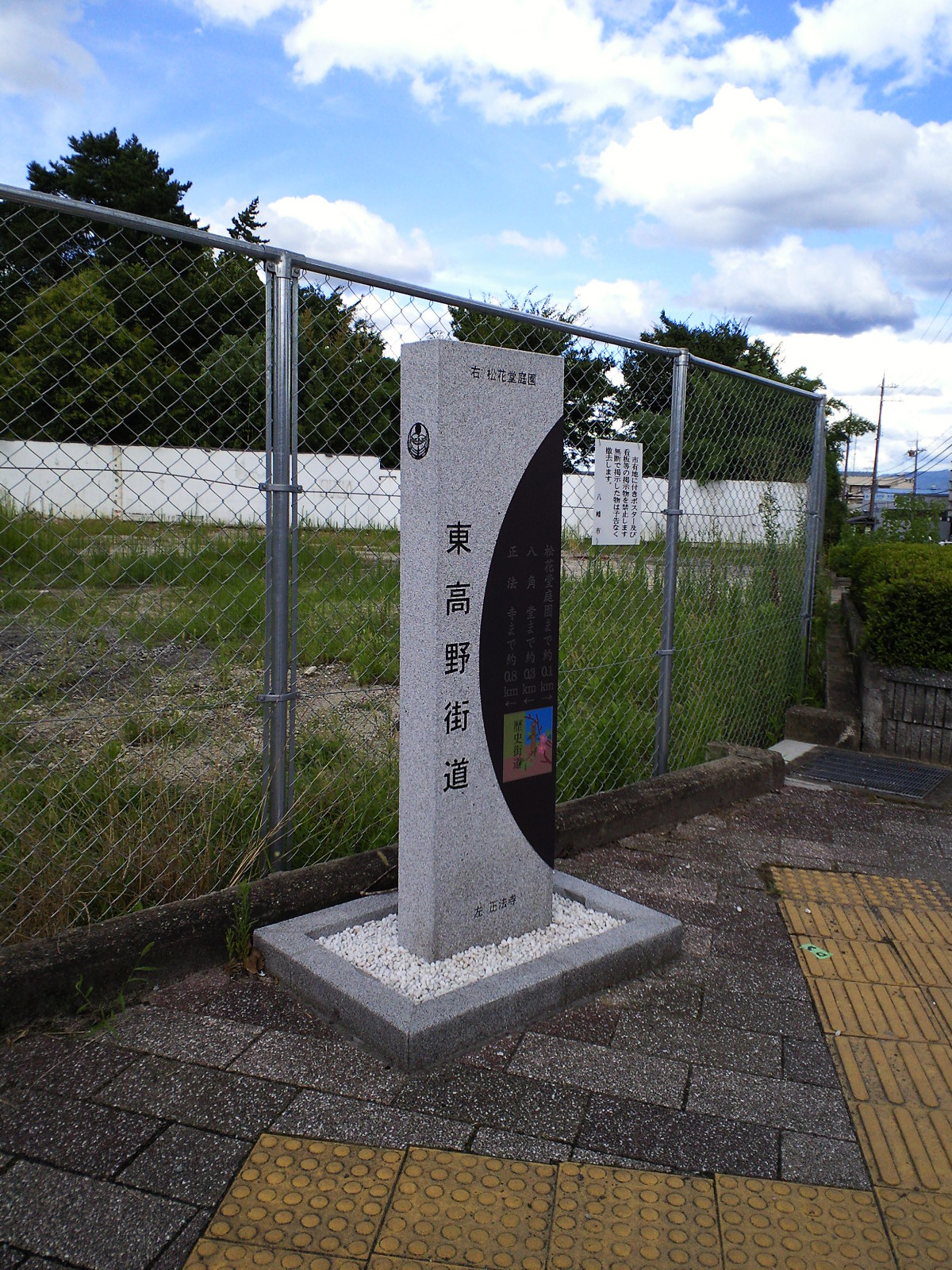 Higashi-Koya Kaido (Road), Yawata, Kyoto, Japan